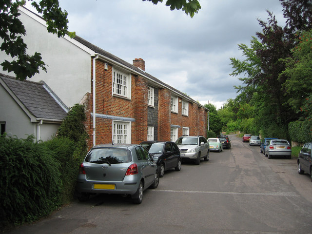 On Street Parking - Church Lane